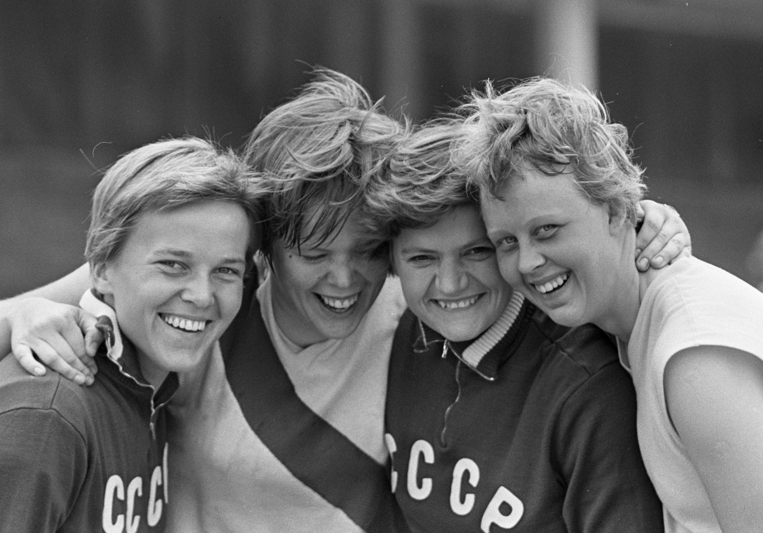 European Rowing Championships at the Bosbaan (from left): Maya Kaufmane, ?, Daina Schweiz, ?